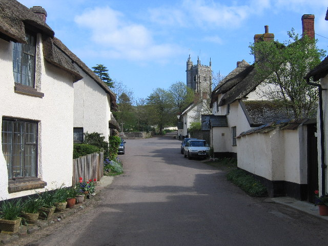 Broadhembury